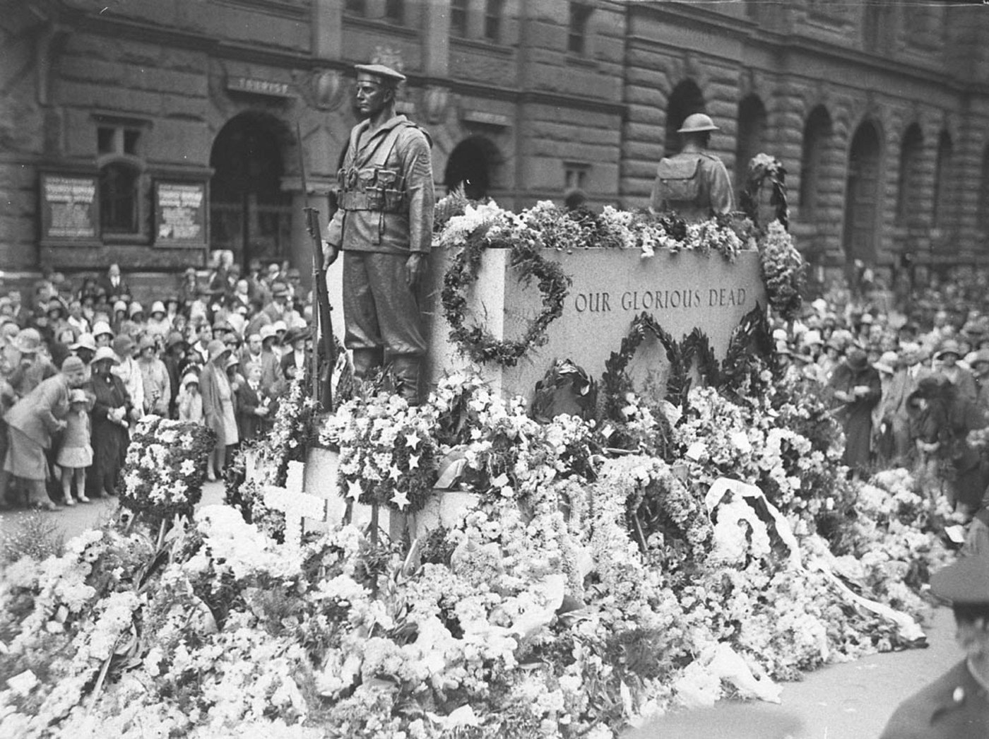 Wreaths on the Cenotaph, Martin Place, Sydney, Anzac Day, 25 April 1930 / photographer Sam Hood Format: Glass negative Find more detailed information about this photographic collection: .au/item/itemDetailPaged.aspx?itemID=9385 Search for more great images in the State Library's collections: .au/search/SimpleSearch.aspx From the collection of the State Library of New South Wales